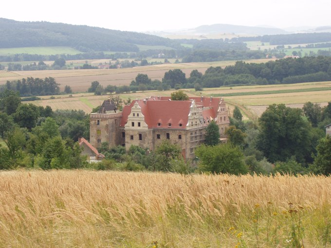 Gola Castle